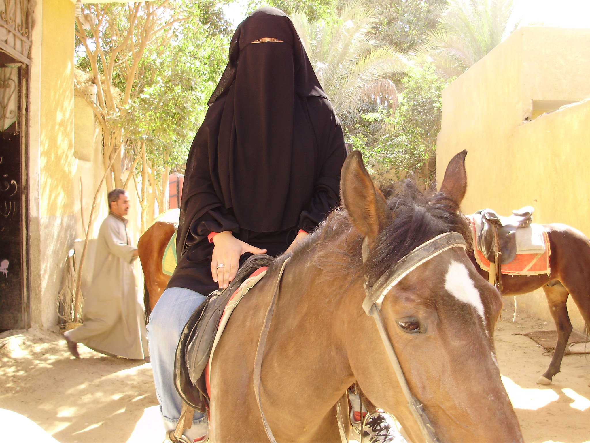 A veiled Egyptian woman riding a horse in Giza, which is near Cairo.